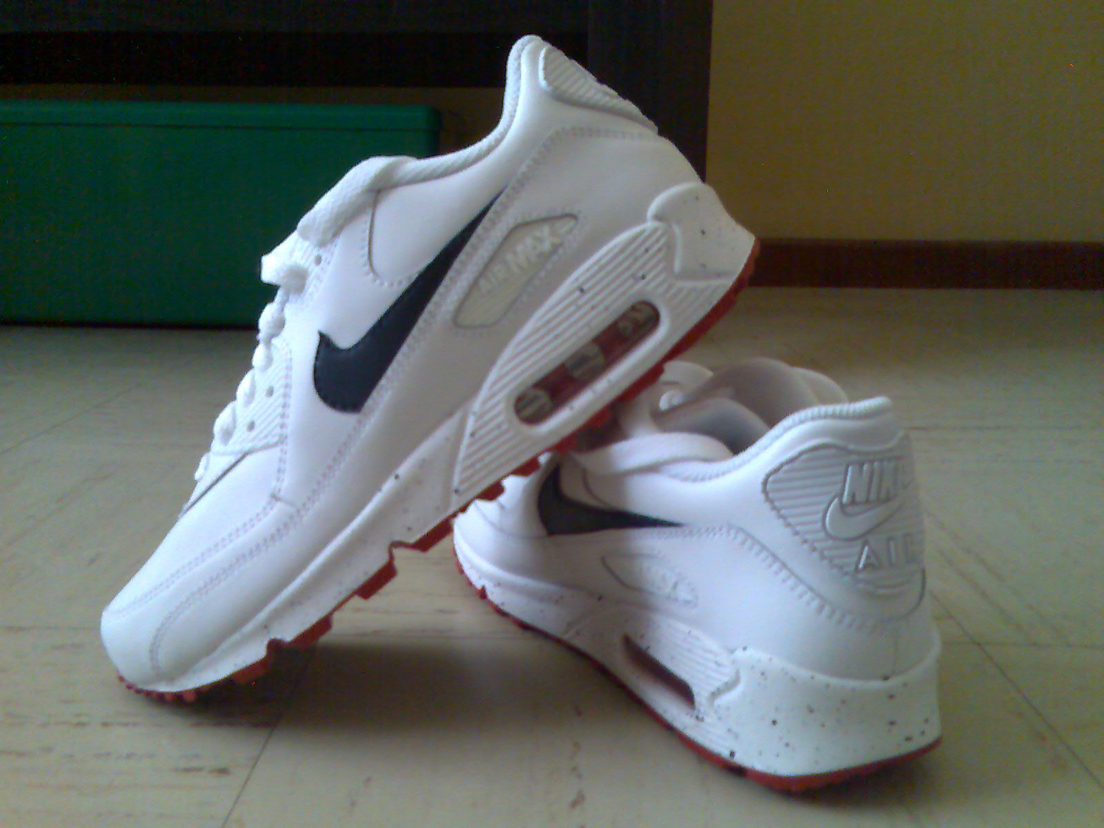 my new air max